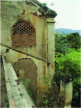 Fazenda do Pocinho: detalhe das ruínas.